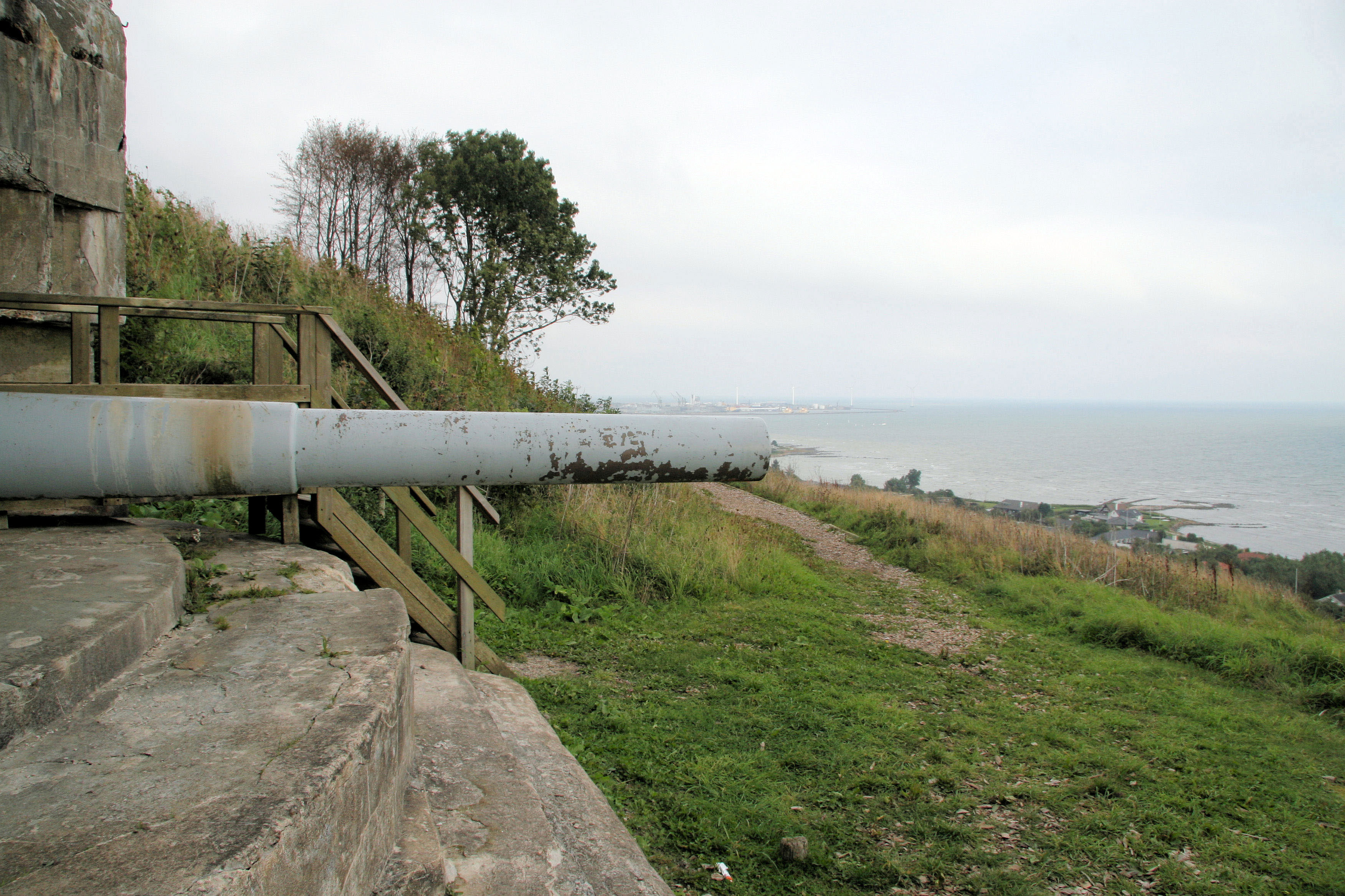 Dronningestien, nature path, Frederikshavn, Denmark